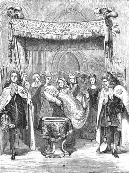 Baptism of Frederick, the Great.